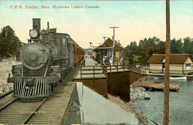 Postcard of Canadian Pacific Railway station, Bala, Muskoka Lakes, Canada. Published by F.W. Micklethwaite, Photographer, Port Sandfield and Toronto.